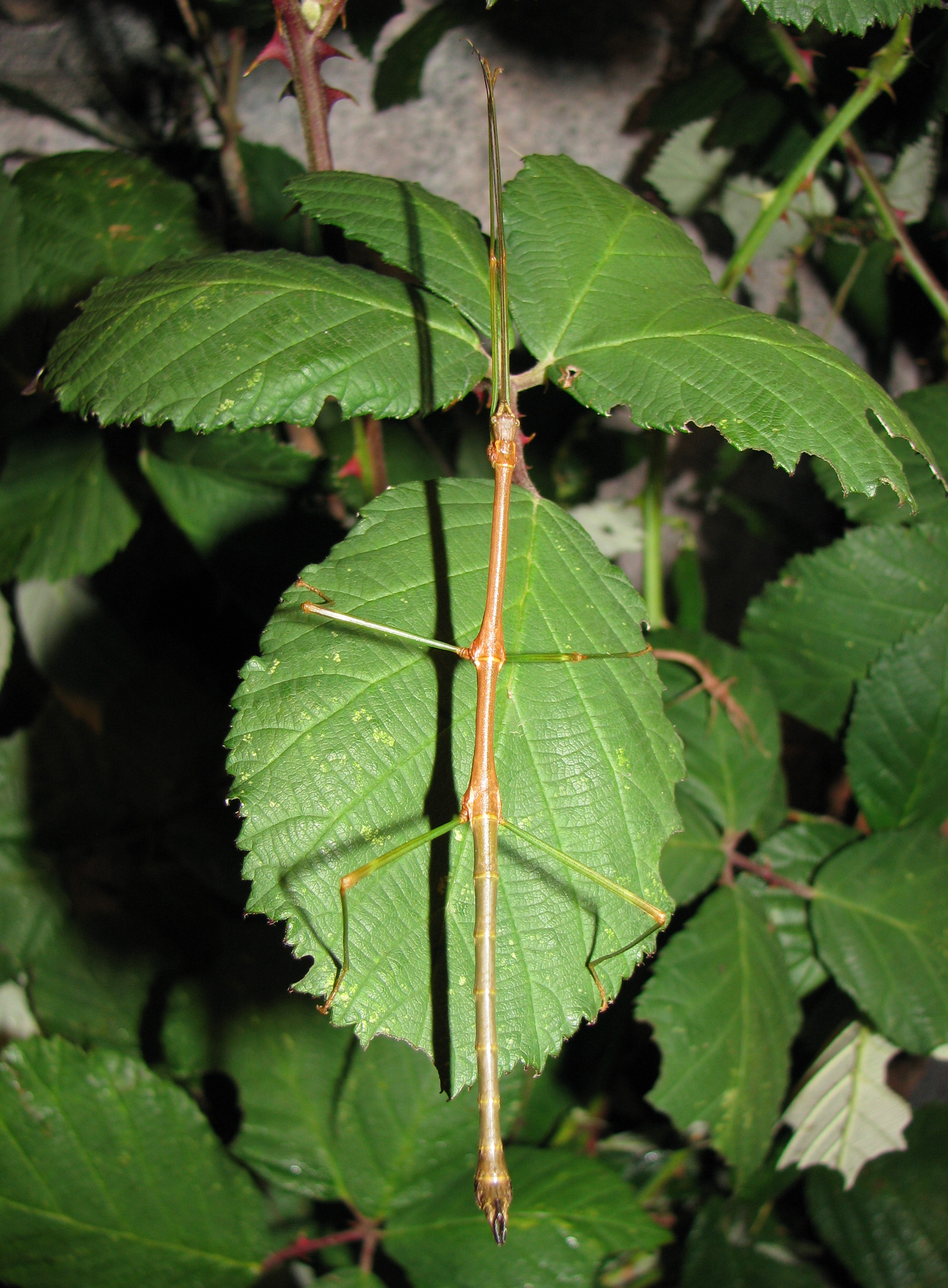 Male of Lonchodiodes samarensis (formerly known as Carausius spec. PSG 230)